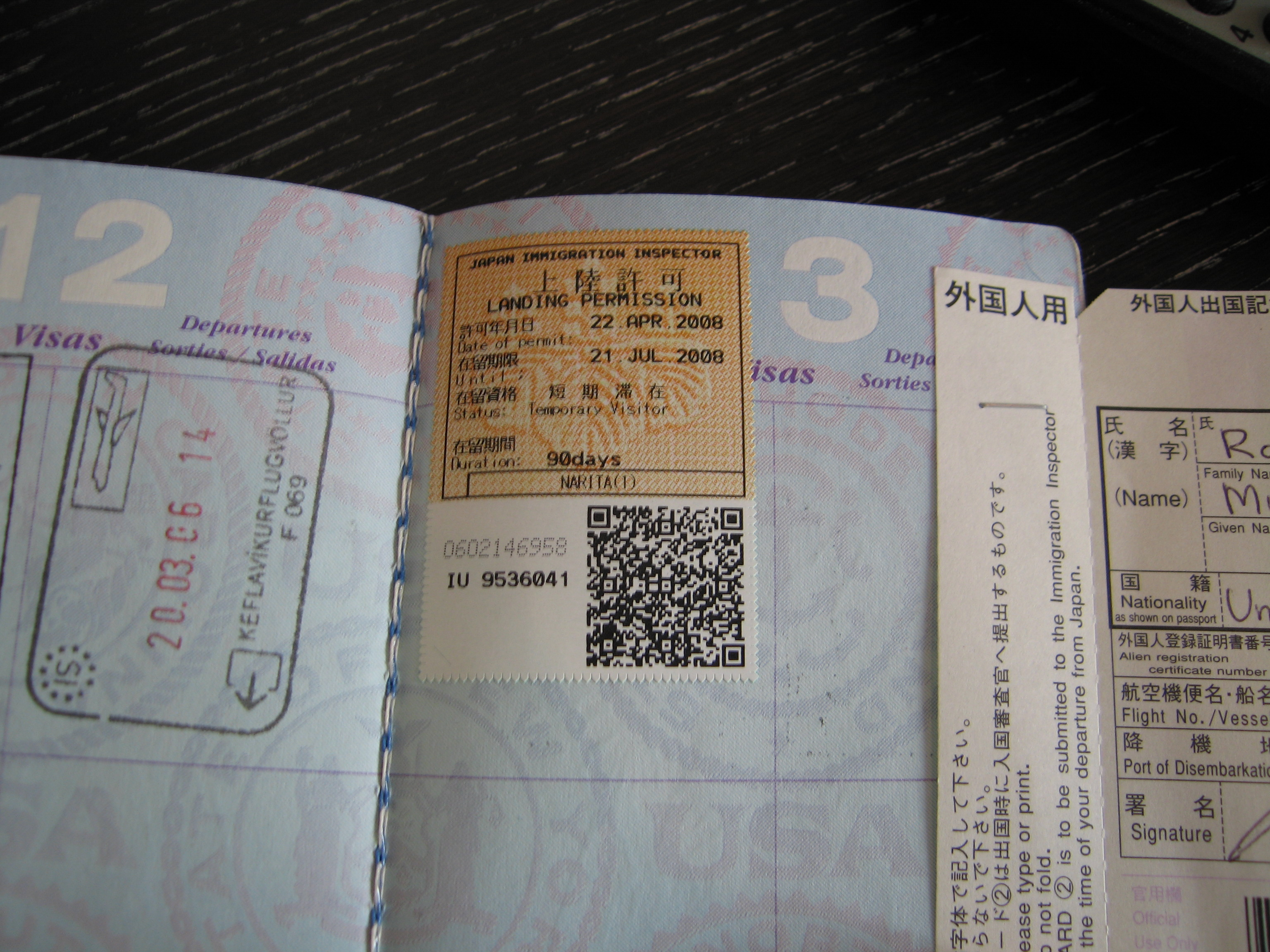 By far the coolest visa I've ever gotten